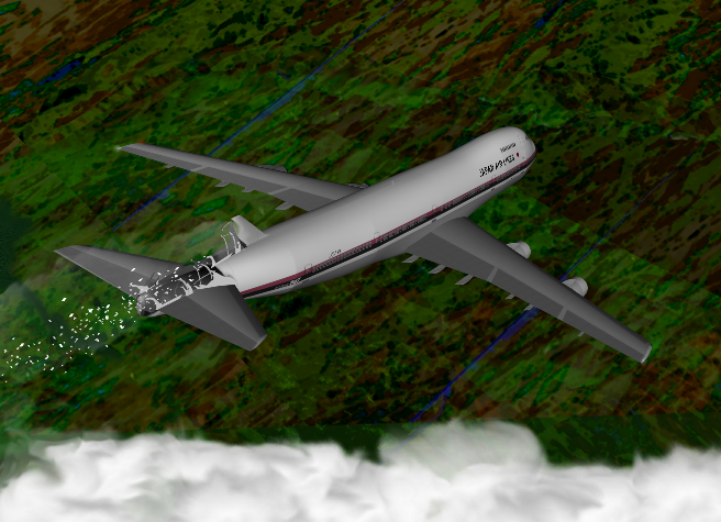 Japan Airlines Flight 123 - The tail partially disintegrates as the repair of the rear bulkhead fails